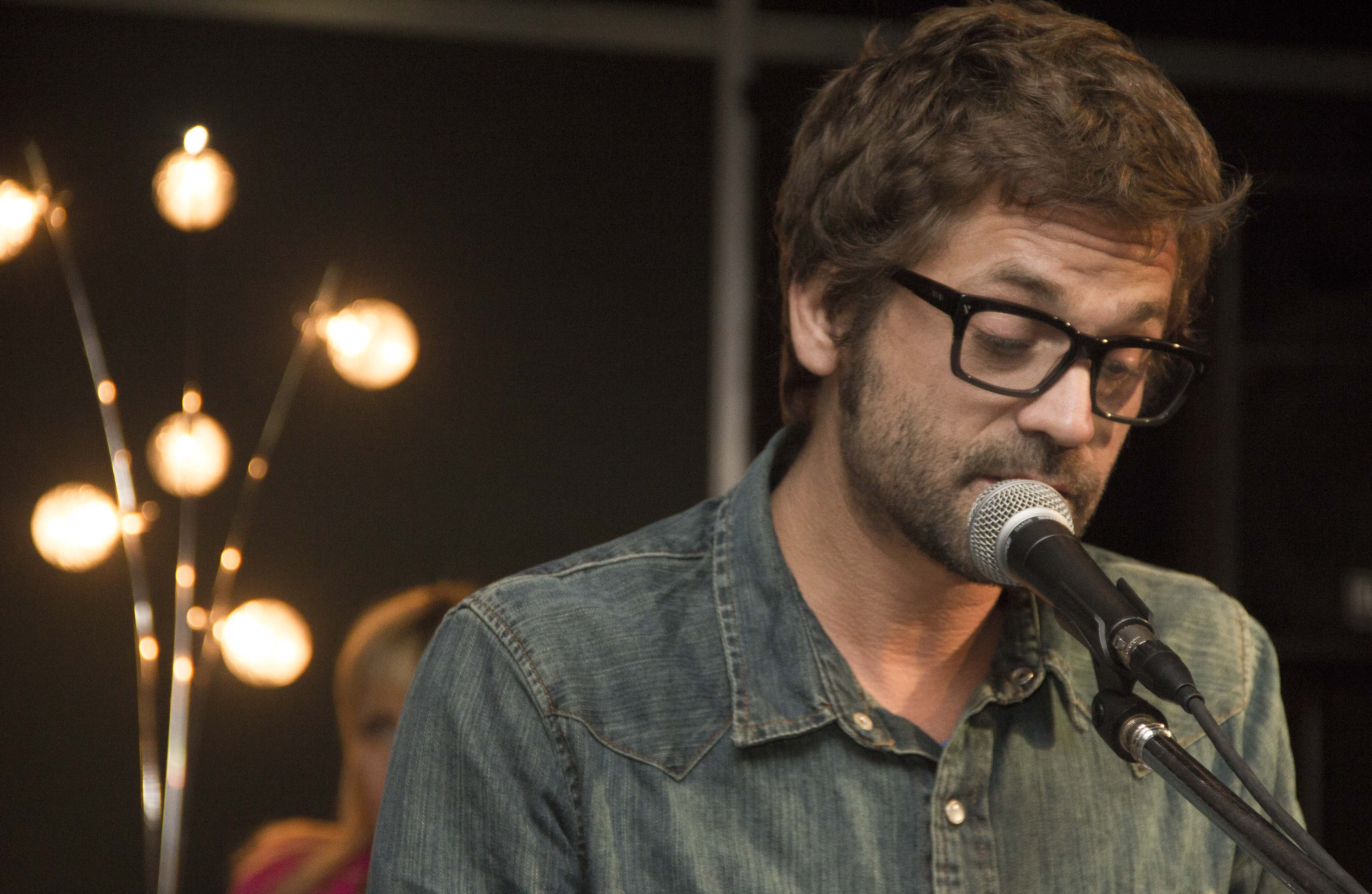 Argentine actor and drummer Nicolás Pauls during the inaugural of the Federal Digital Library in Buenos Aires. Photo: Arturo Blas